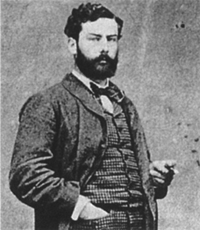 A 1882 photograph of Alfred Sisley (1839–1899), Impressionist painter.